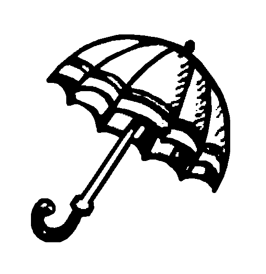 one of Symbols used in Indian Election